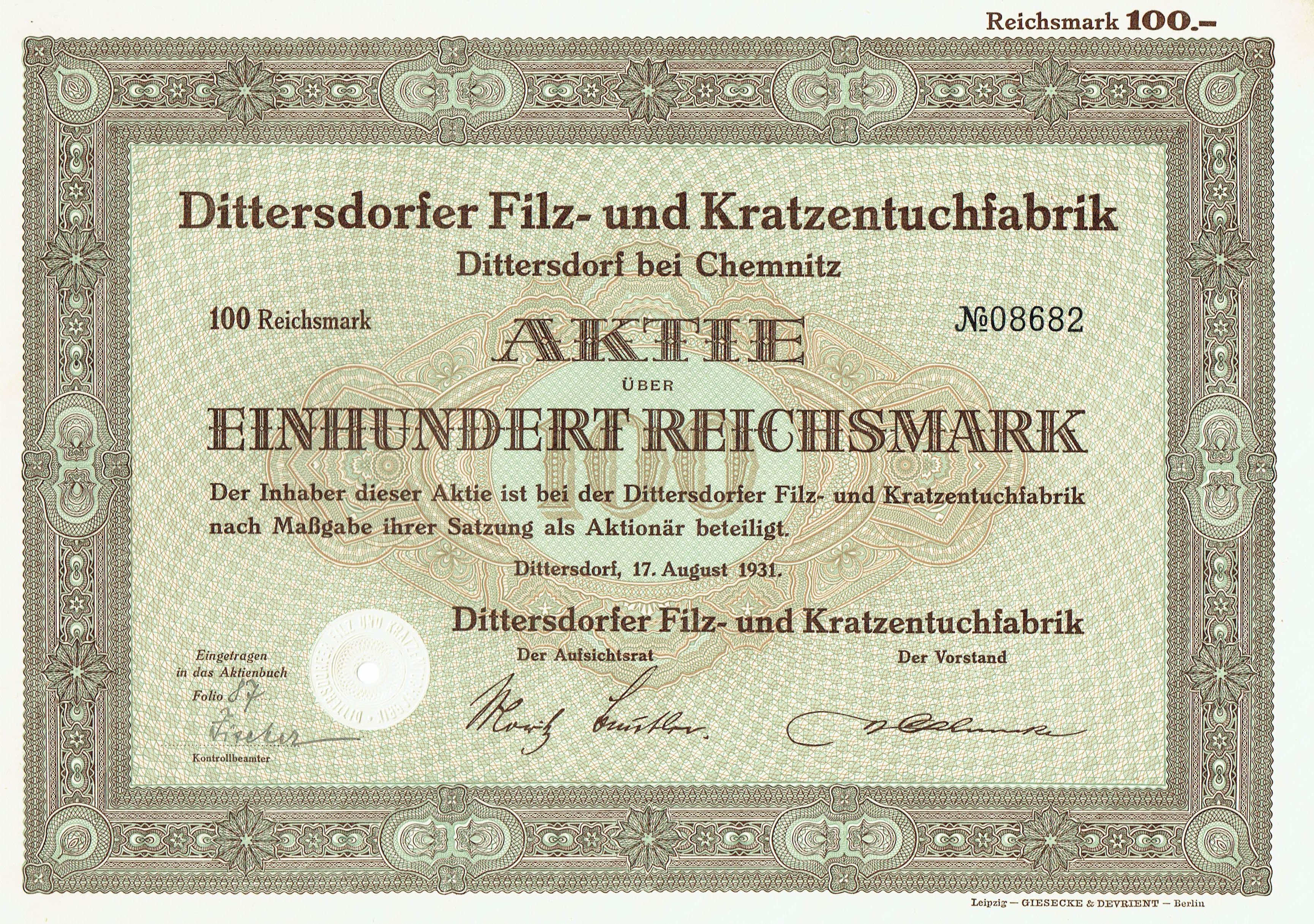 Share of the Dittersdorfer Filz- und Kratzentuchfabrik, issued 17. August 1931